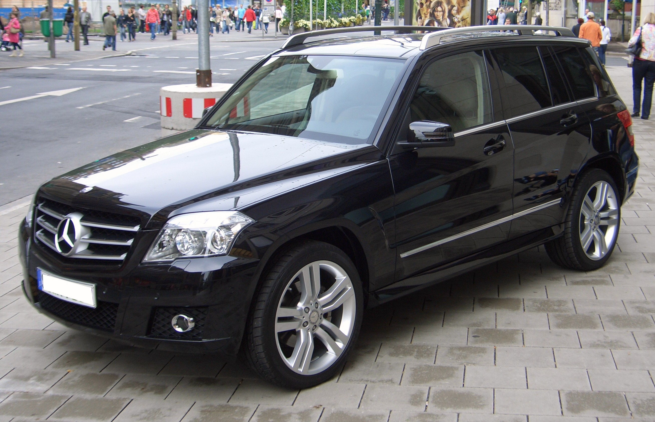 Mercedes-Benz GLK 250 4matic (from 200), seen in Duesseldorf, Germany